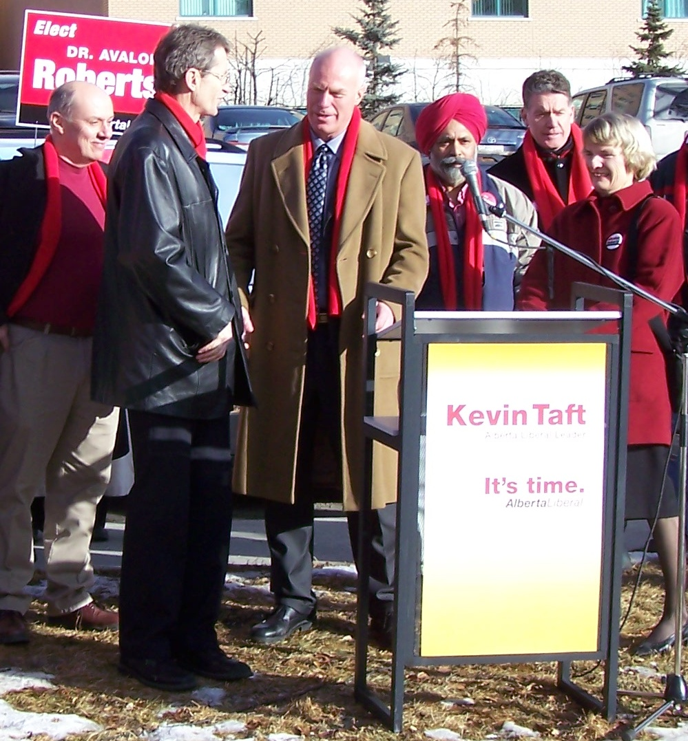 The leader of the Alberta Liberal Party held a press conference on February 20, 2008 across the street from (what was) the Holy Cross Hospital in Calgary, Alberta, Canada. It was part of the campaign for the March 3, 2008 provincial election. In the picture are (left-to-right): Dave Taylor, David Swann, Kevin Taft, Darshan Kang, Harry B. Chase, and Avalon Roberts.